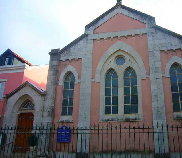 Saint andrew lisbon